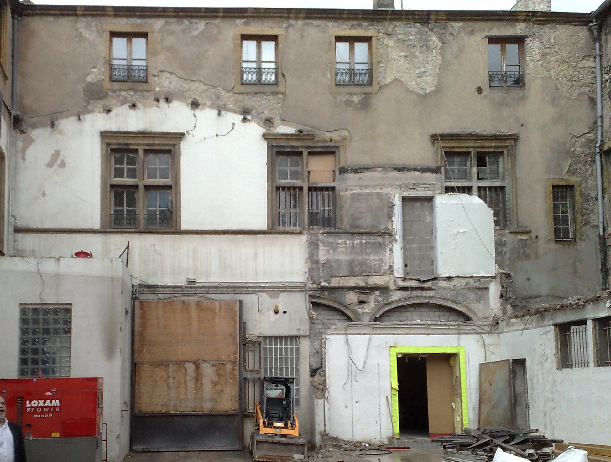 Hotel de Burtaigne - rear façade of 6 place des charrons, Metz